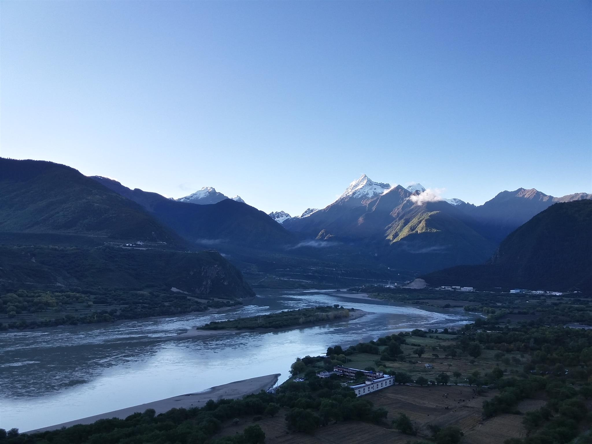 Yarlung Tsangpo